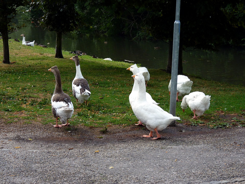 Roman Tufted Geese in city park Maastricht